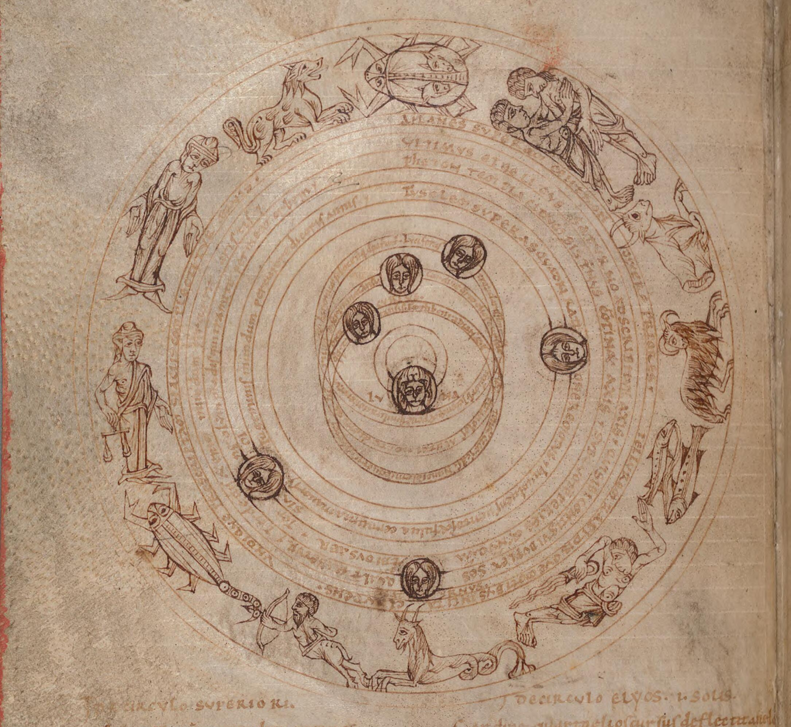 The oldest scientific manuscript in the National Library the volume contains various Latin texts on astronomy. The volume, written in Caroline minuscule, consists of two sections, the first (ff. 1-26) copied c. 1000, in the Limoges area of France, probably in the milieu of Adémar de Chabannes (989-1034), whilst the second (ff. 27-50), from a scriptorium in the same region, may be dated c. 1150.